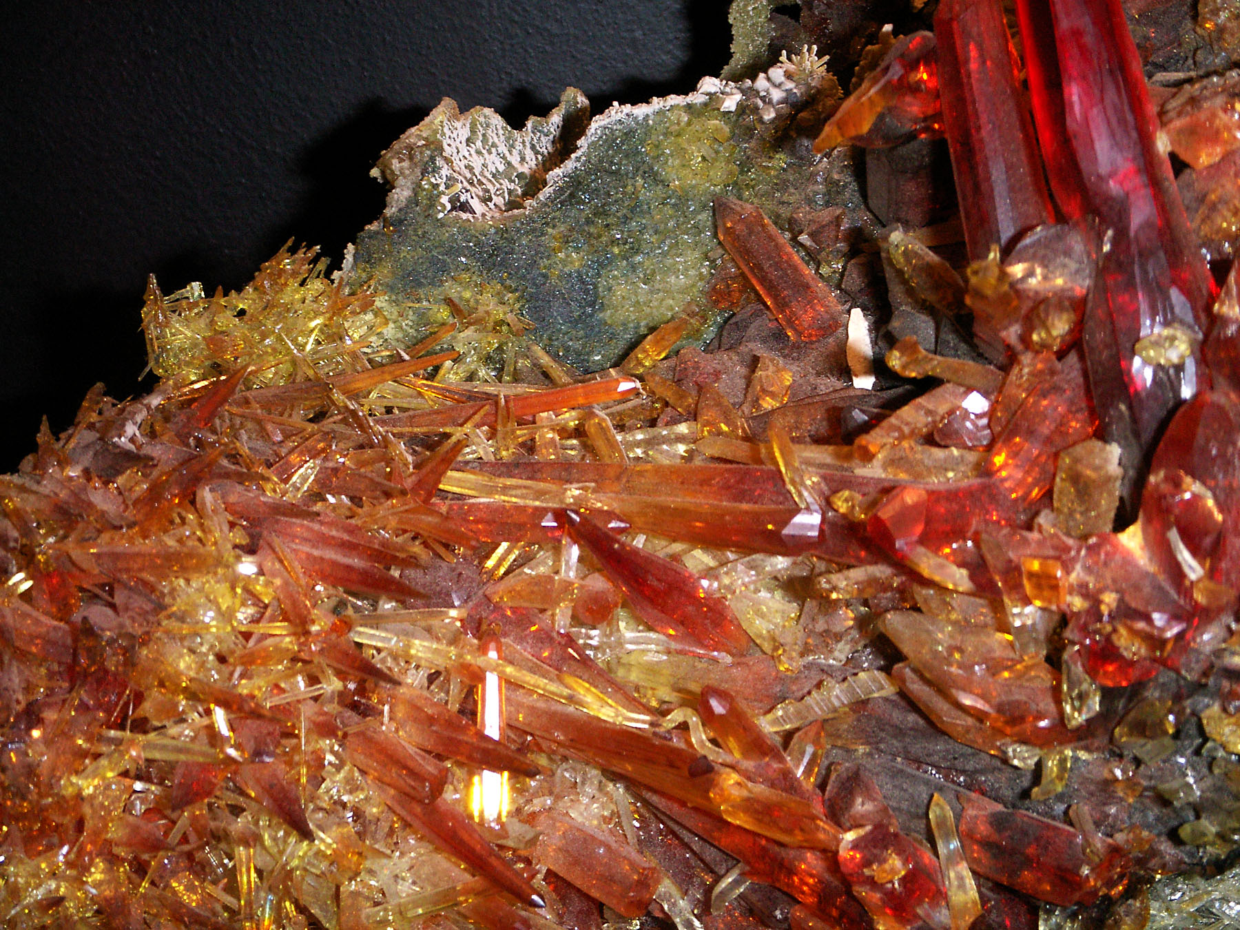 Zincite, Arizona Original description: This giant chunk of a crystal cluster is enormous. Had to imagine the mining company being able to extract it without damaging the thousands of crystal "points". Many minerals are present here. The crystal blades are especially fascinating when they terminate from a yellow or orange to red.